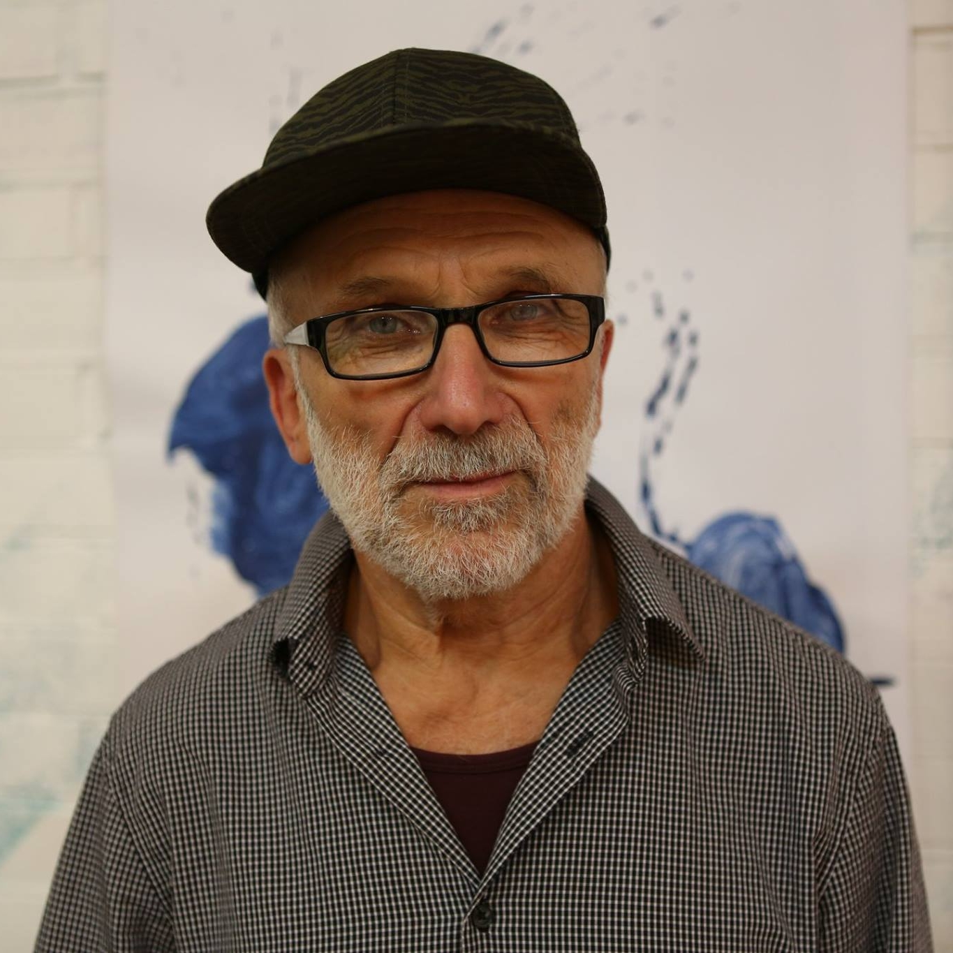 The foto was shot on an exhibition in the end of 2016. The abstractionist Victor Nikolaev died soon in Juli 2017.